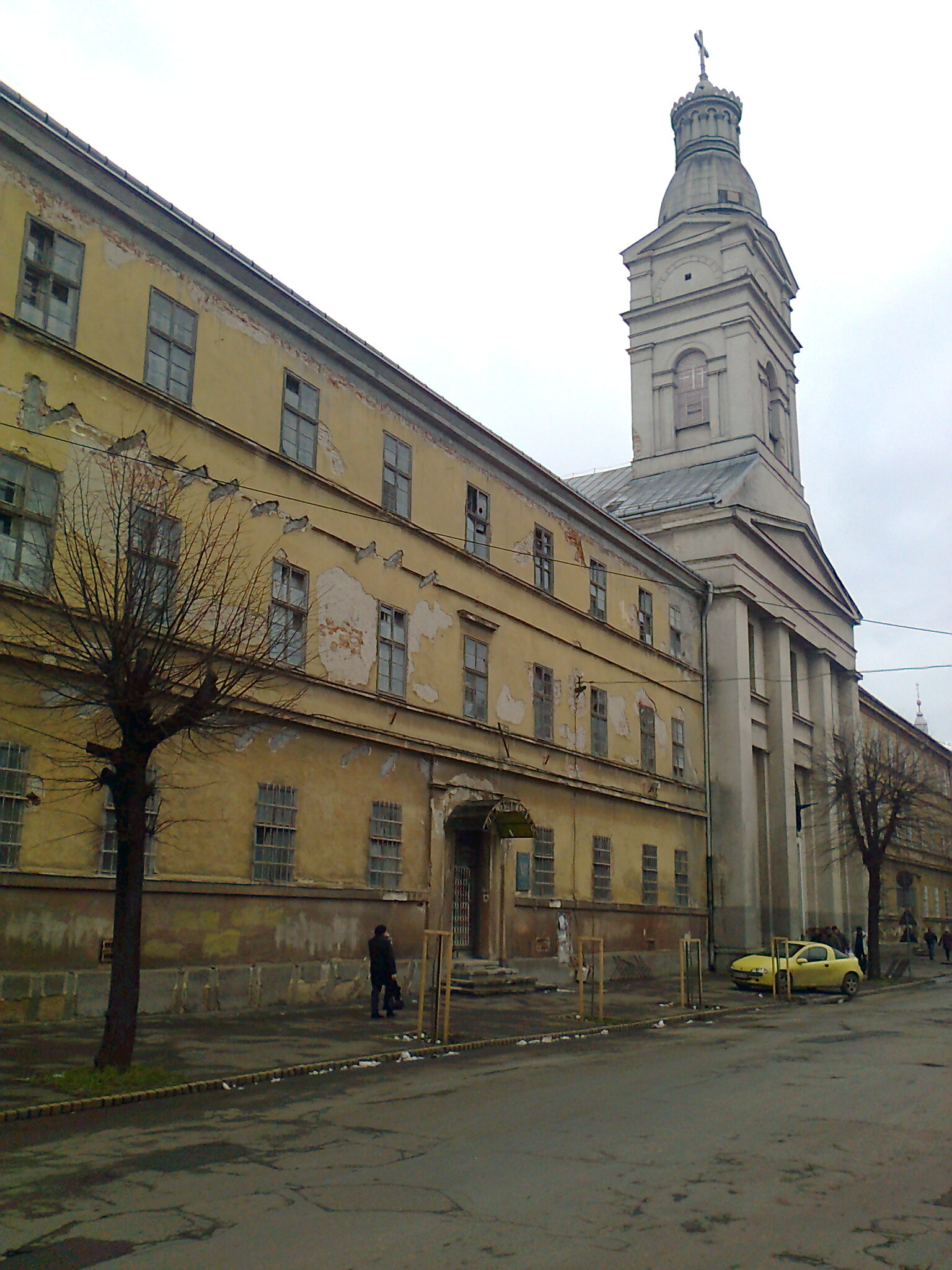 Catholic church and convent in Satu Mare